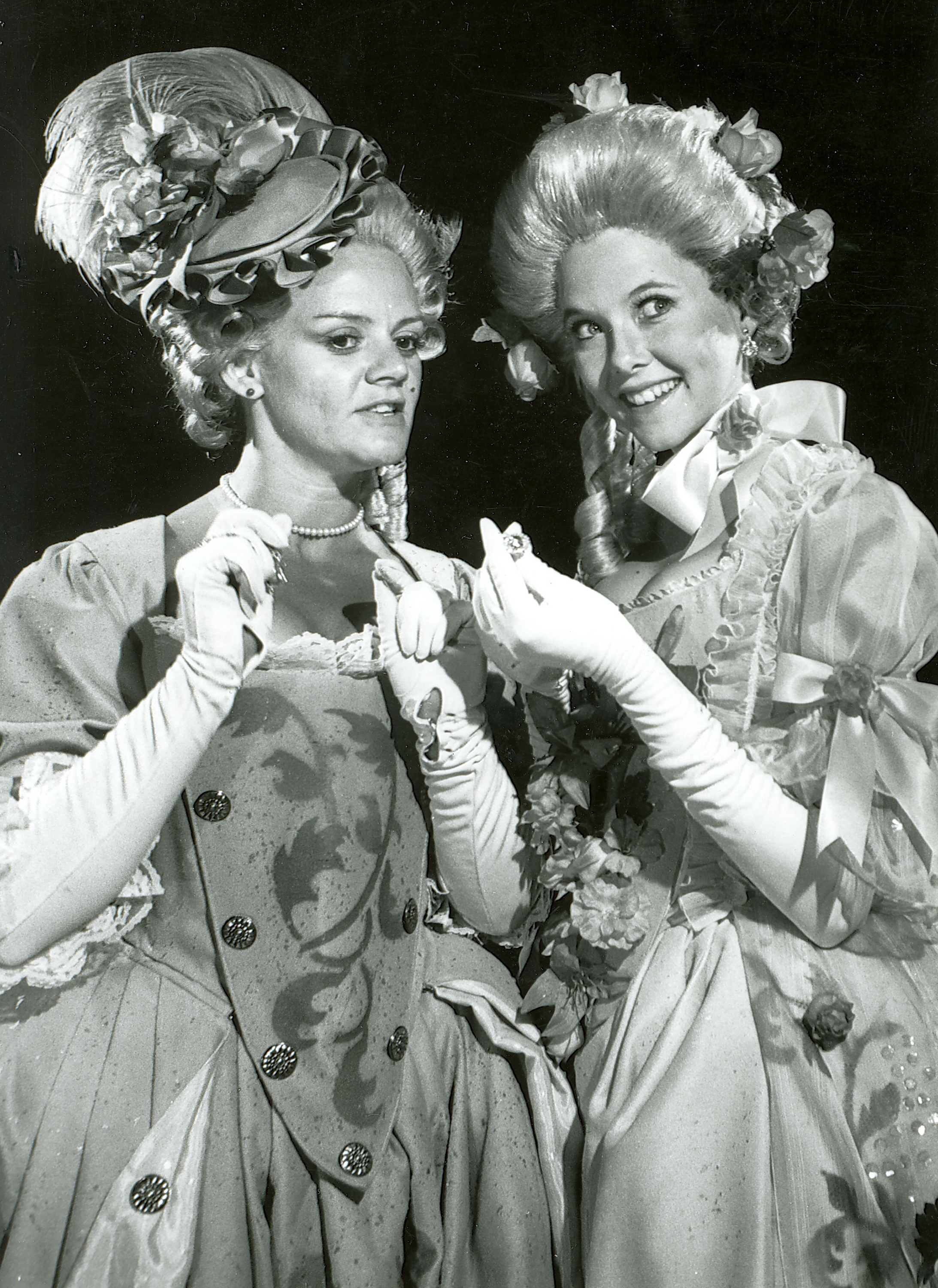 Love's Labour's Lost, Colorado Shakespeare Festival, 1980, Mary Rippon Outdoor Theatre